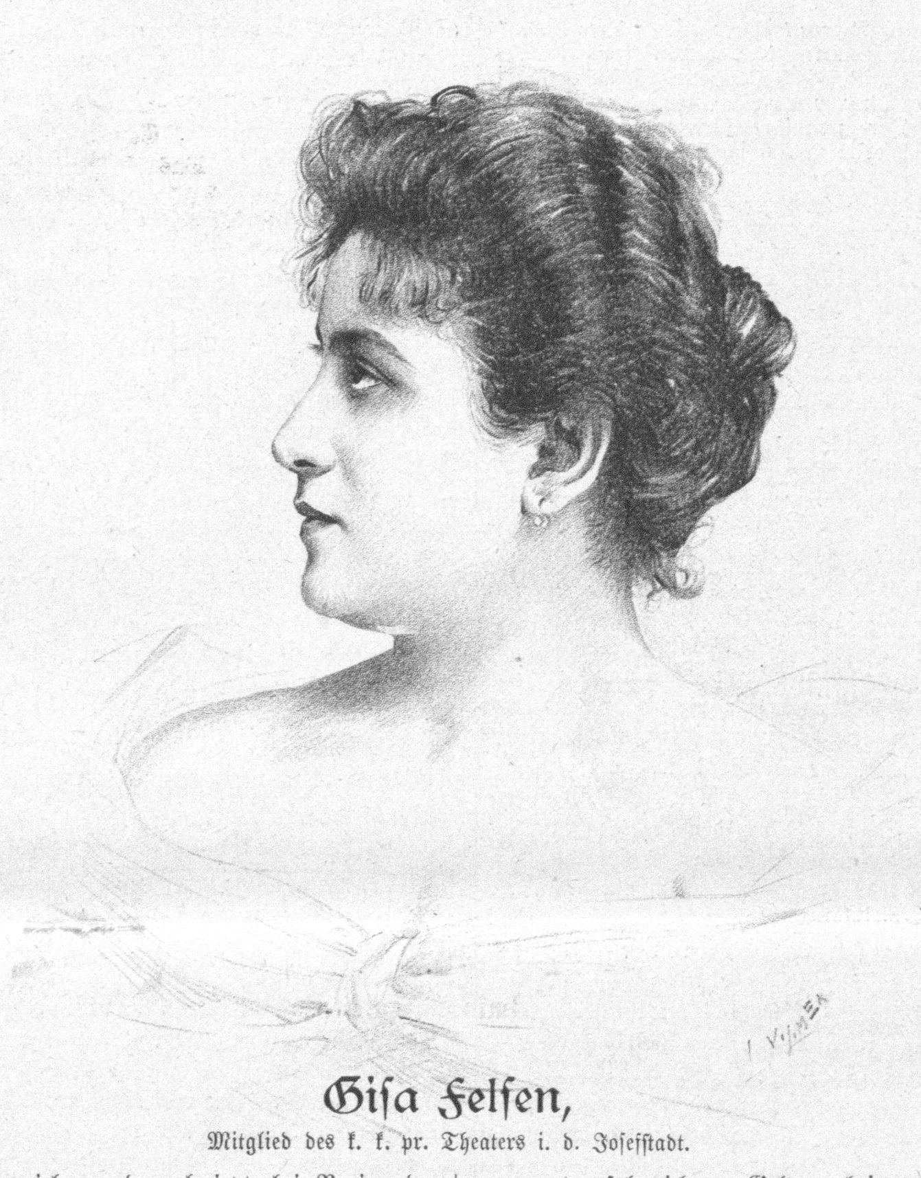 Portrait of Gisa Felsen (1874-??), German actress.